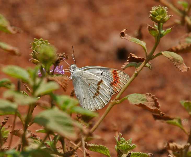 Crimson Tip Colotis danae in Hyderabad , India.